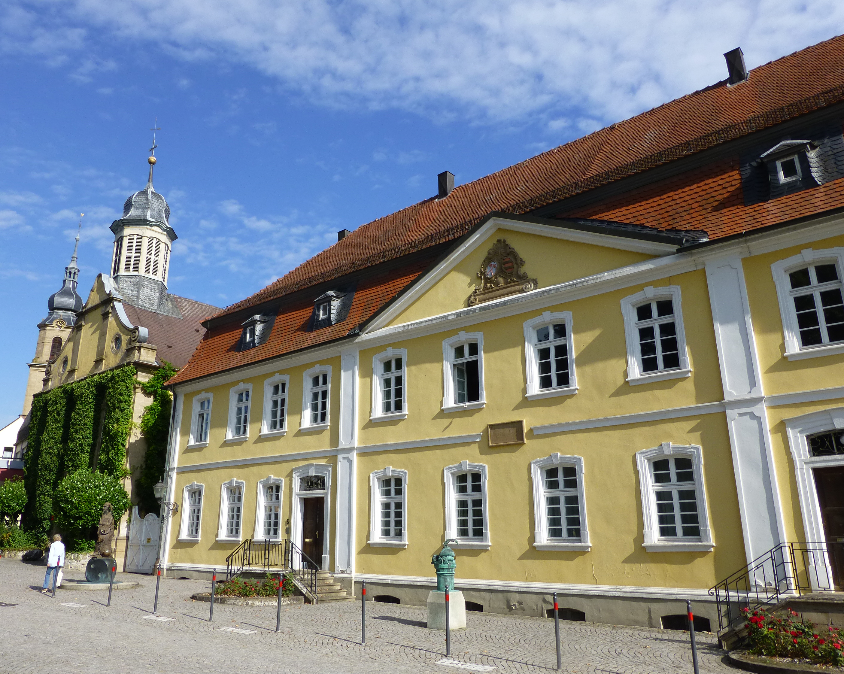 Place where the patriot Friedrich Hecker is born in 1811, Angelbachtal, Baden-Württemberg. Formerly Eichtersheim (before 1972).